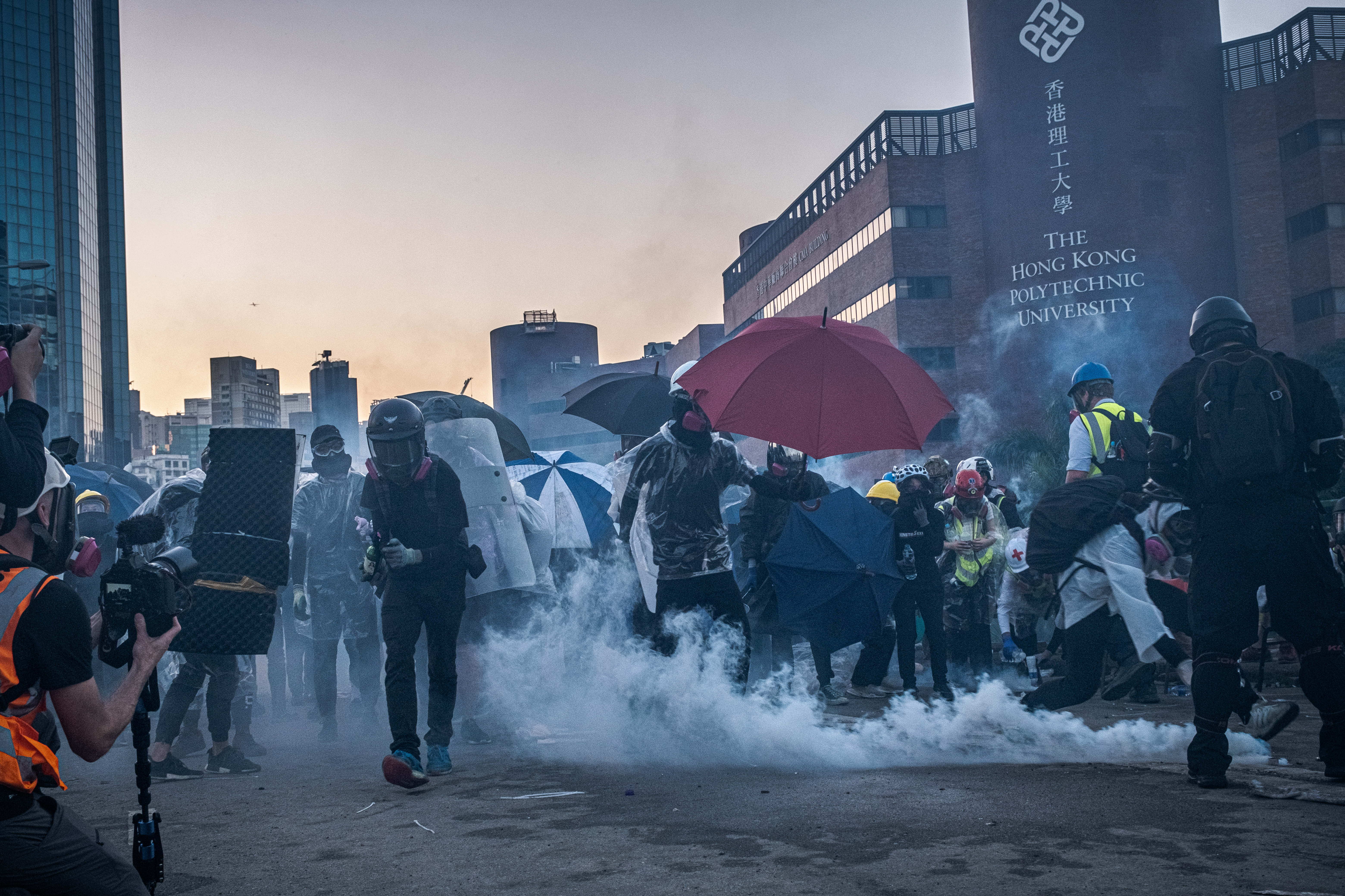 Protester suffer from tear gas in Cheong Wan Road flyover